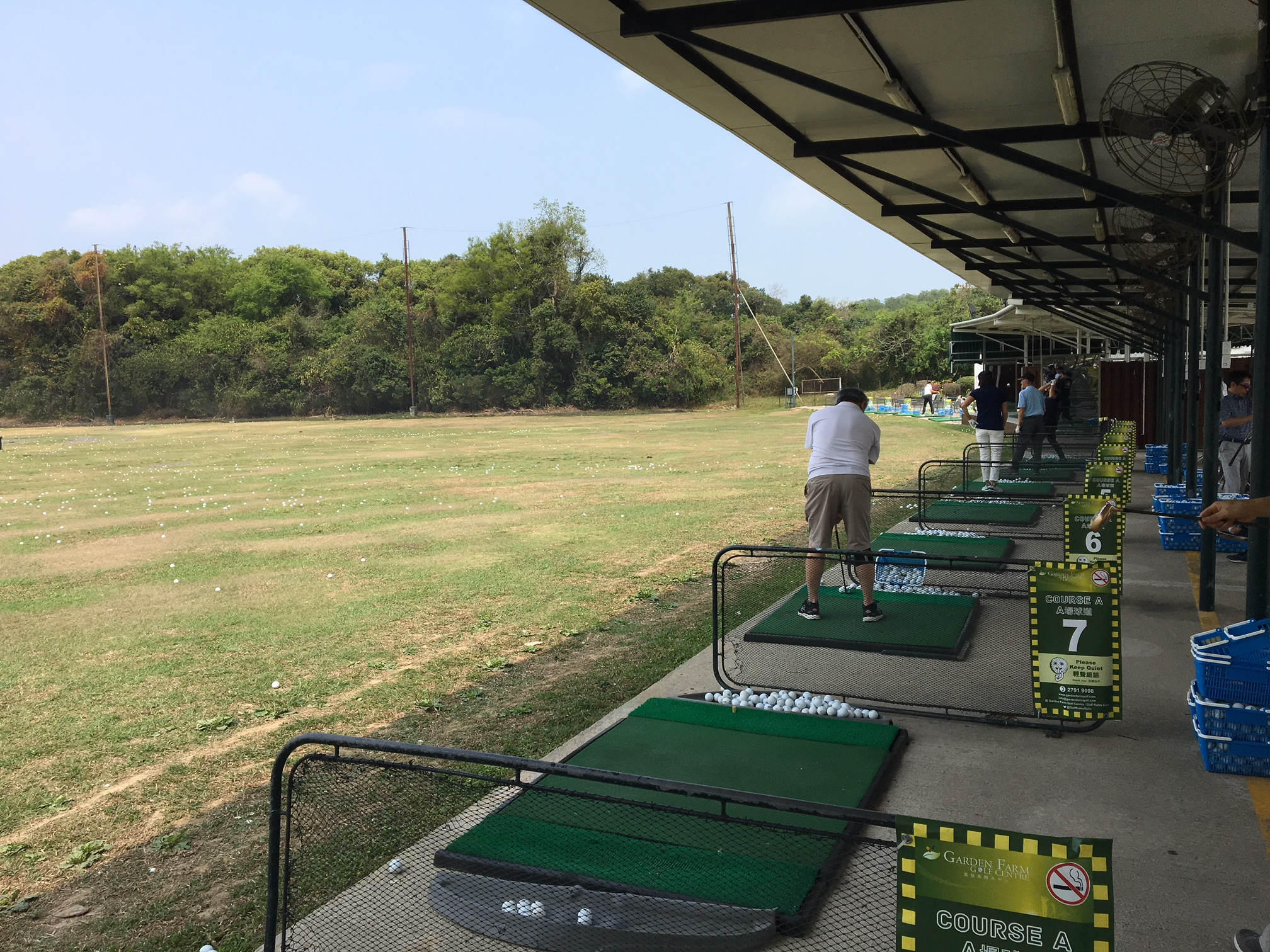 Driving range in Hong Kong